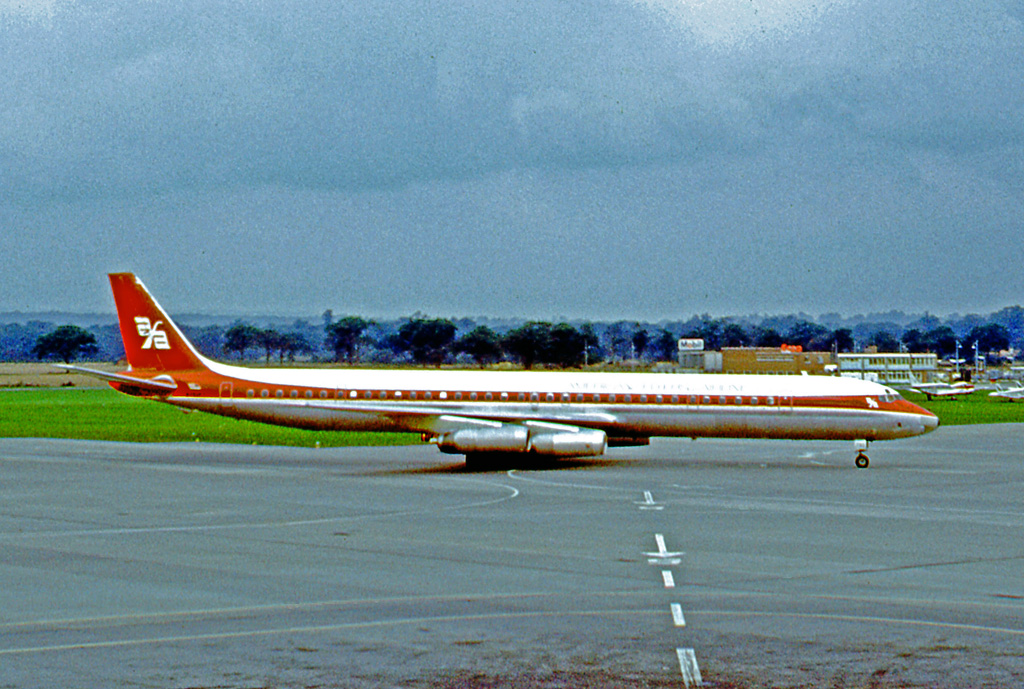 Douglas DC-8-63CF N792FT of American Flyers Airline in 1969. Leased from Flying Tigers.